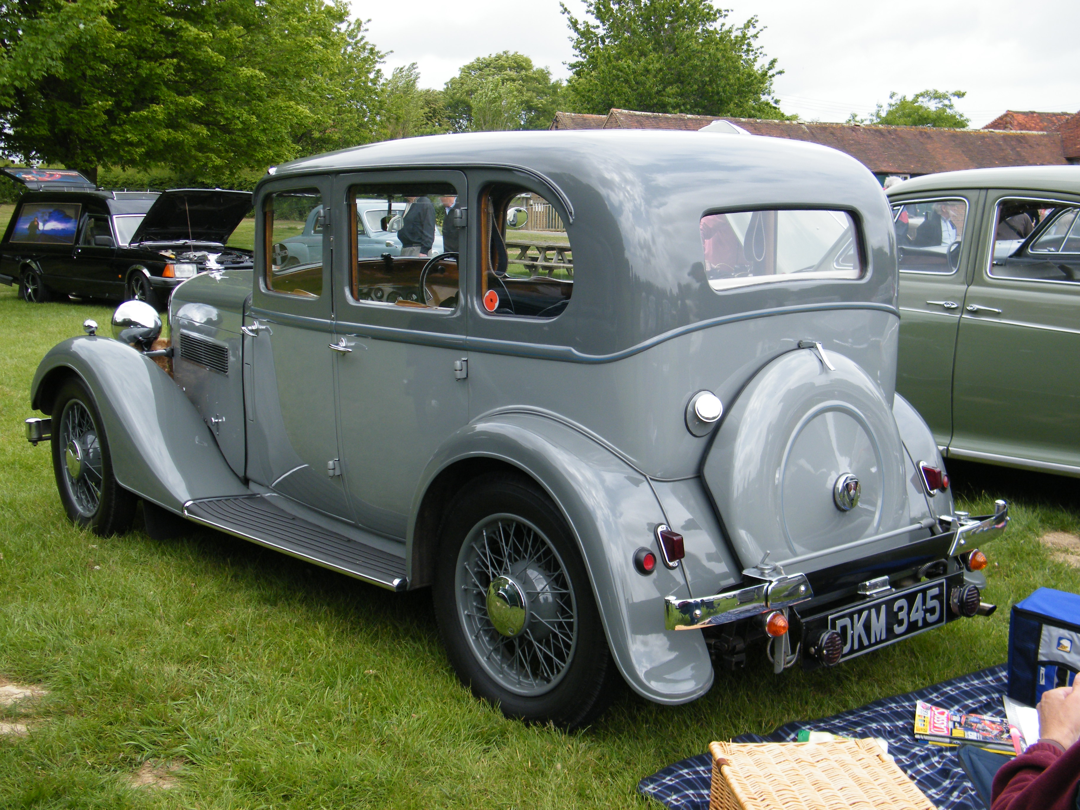 1936 Rover 10 six-light saloon (DVLA) first registered 1 December 1936, 1303 cc 2011 - Aunties go to Bentley, Shortgate